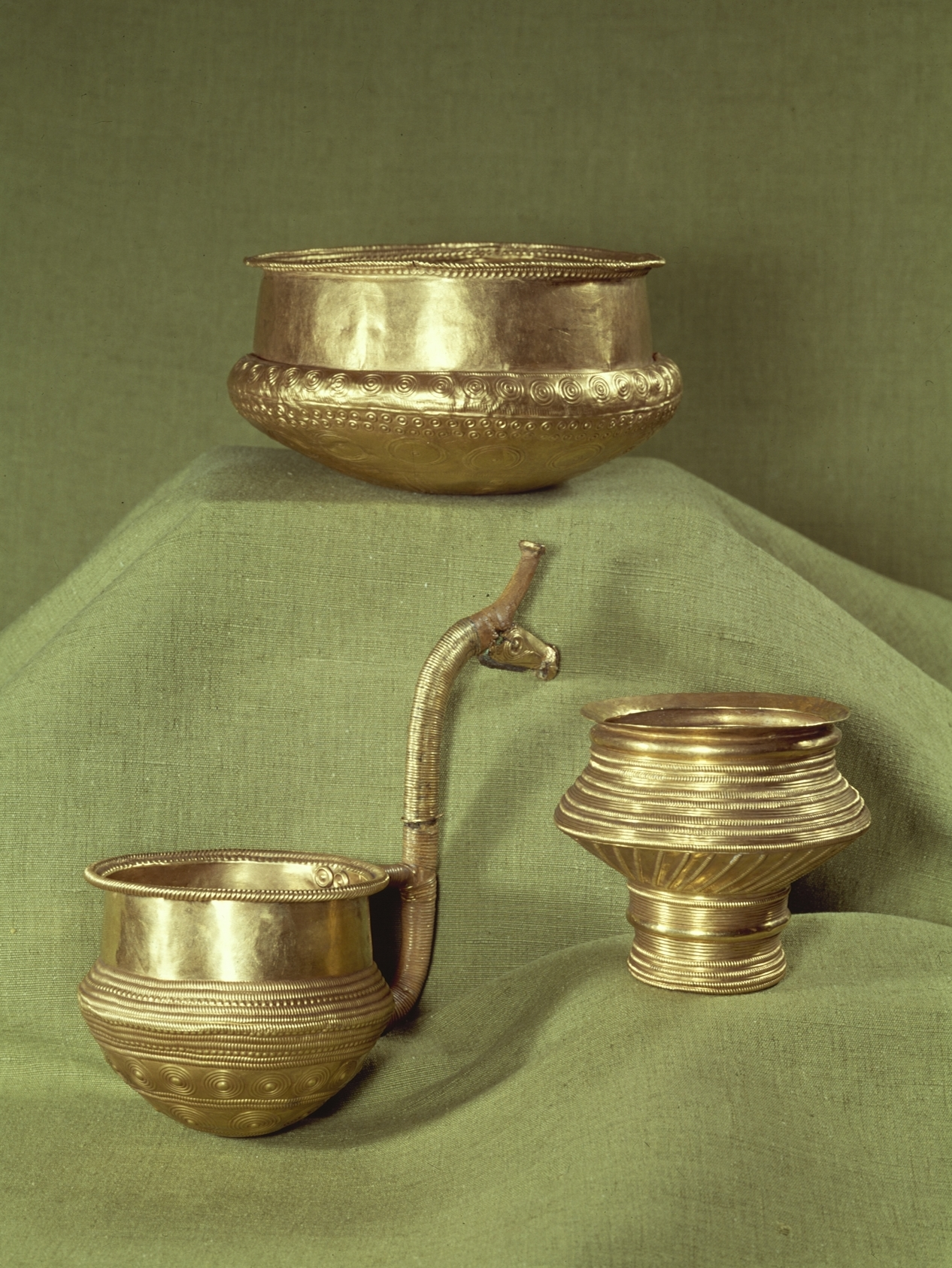 Golden vessels from Borgbjerg, Zeland, Denmark, (7046; B1066; B1067)